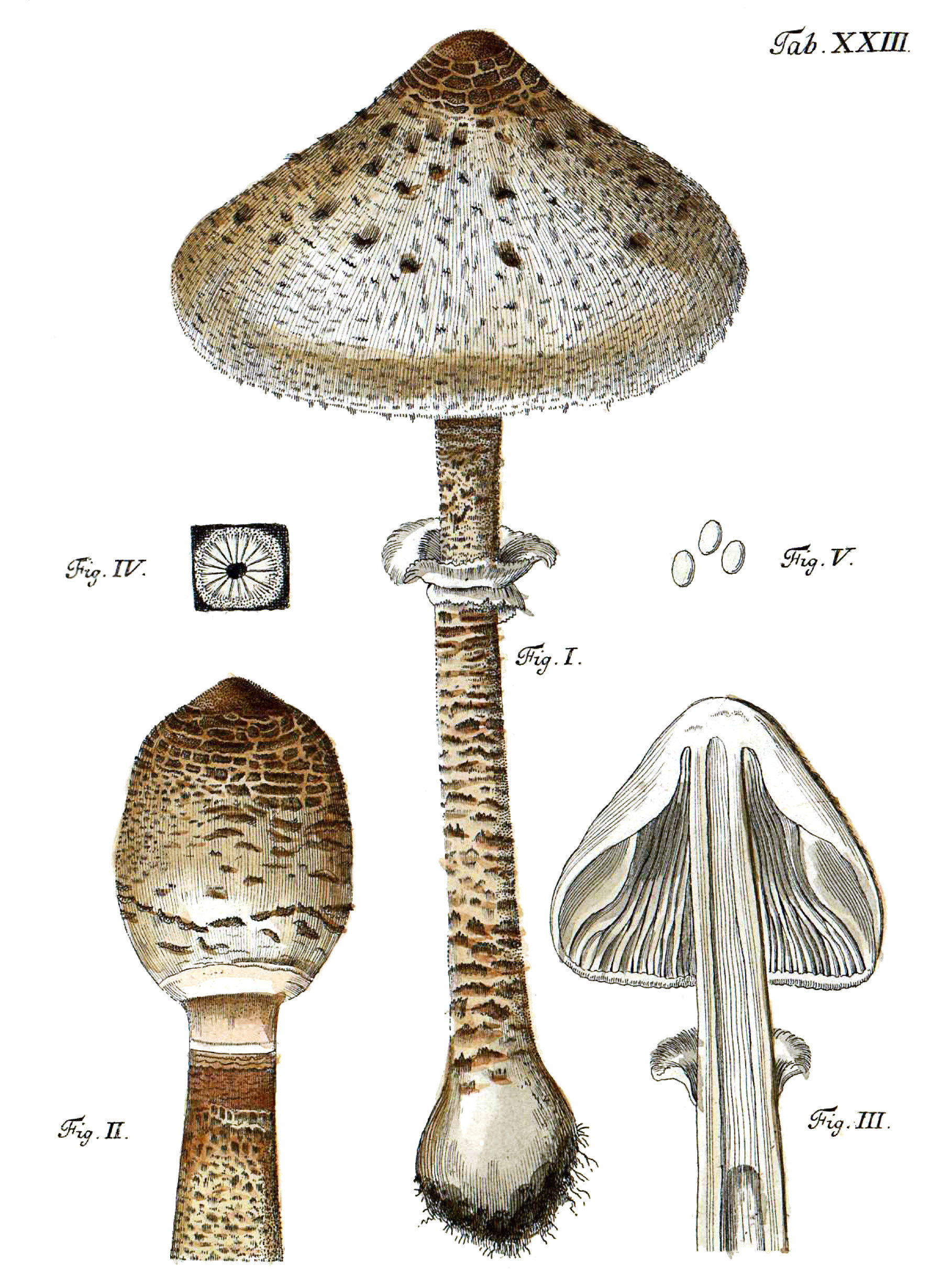 Explanation of the 2nd plate by the author J.C. Schäffer (in German und Latin) The plate shows Agaricus procerus Schaeff., Fungorum qui in Bavaria et Palatinatu circa Ratisbonam nascuntur icones, Vol 4: Seite 12 (1774). According to the right scientific name is now Macrolepiota procera (Scop.) Singer